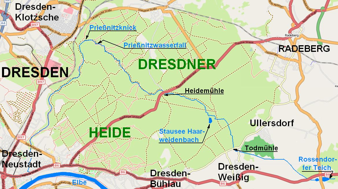 Map of the Dresdner Heide with Prießnitz river